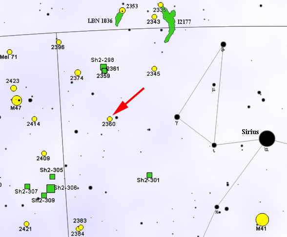 Map of NGC 2360